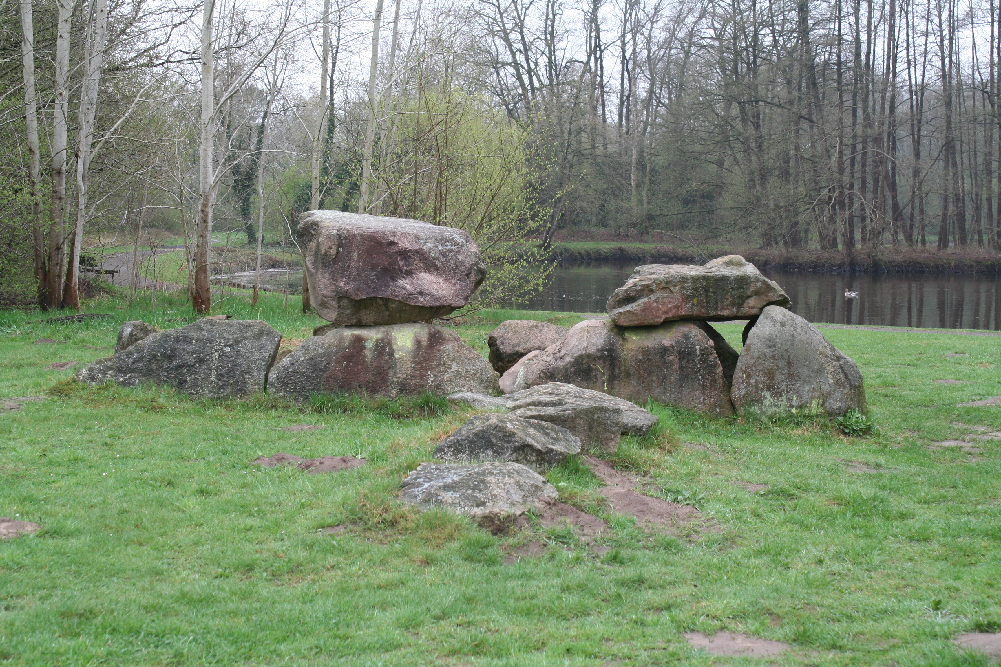 Megalithic tomb Düste, relocated to Barnstorf